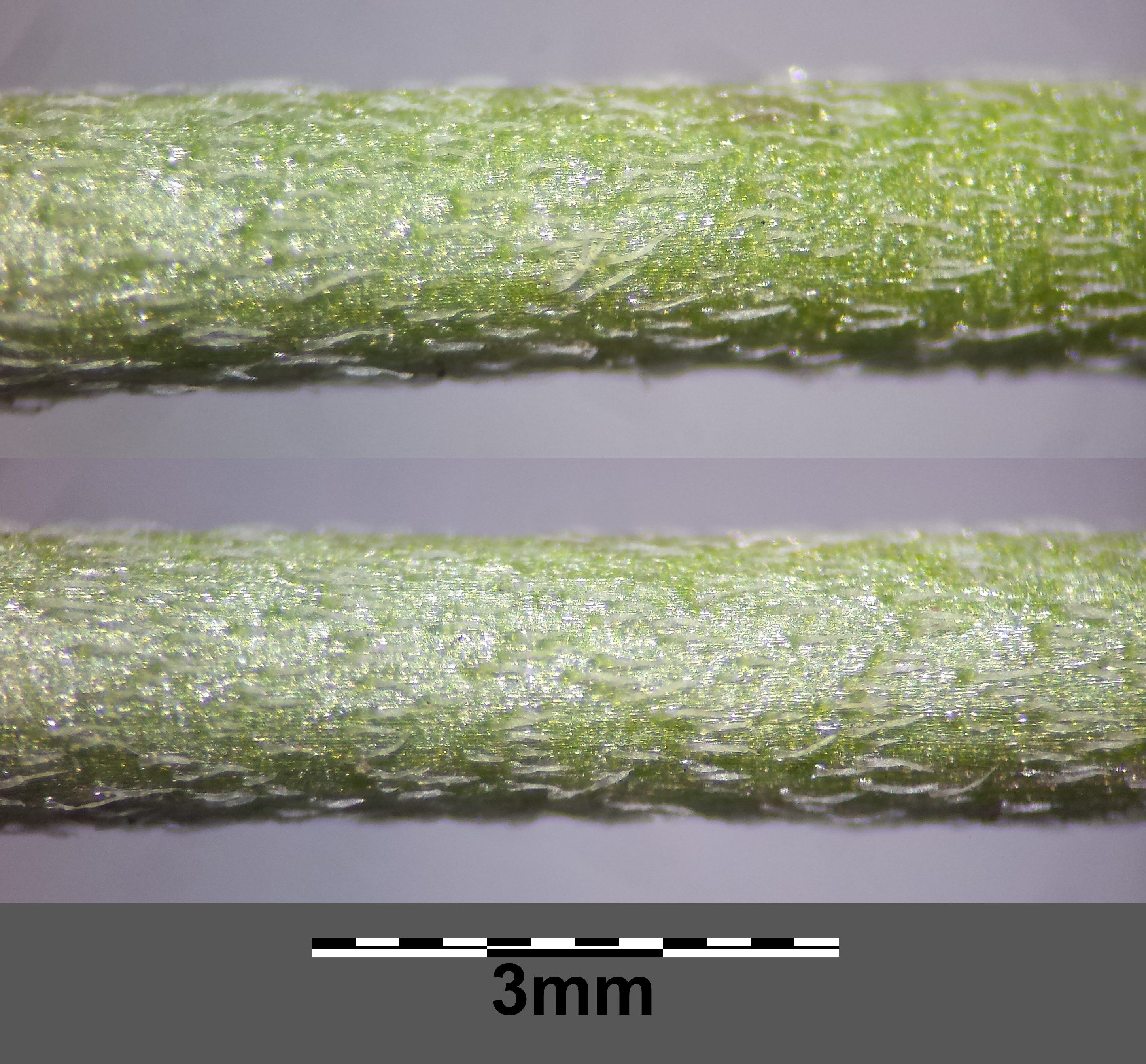 Stem with adjacent hairs Taxonym: Plantago maritima ss Fischer et al. EfÖLS 2008 ISBN 978-3-85474-187-9 Location: next to Ziersdorf, district Hollabrunn, Lower Austria - ca. 225 m a.s.l. Habitat: salty verge